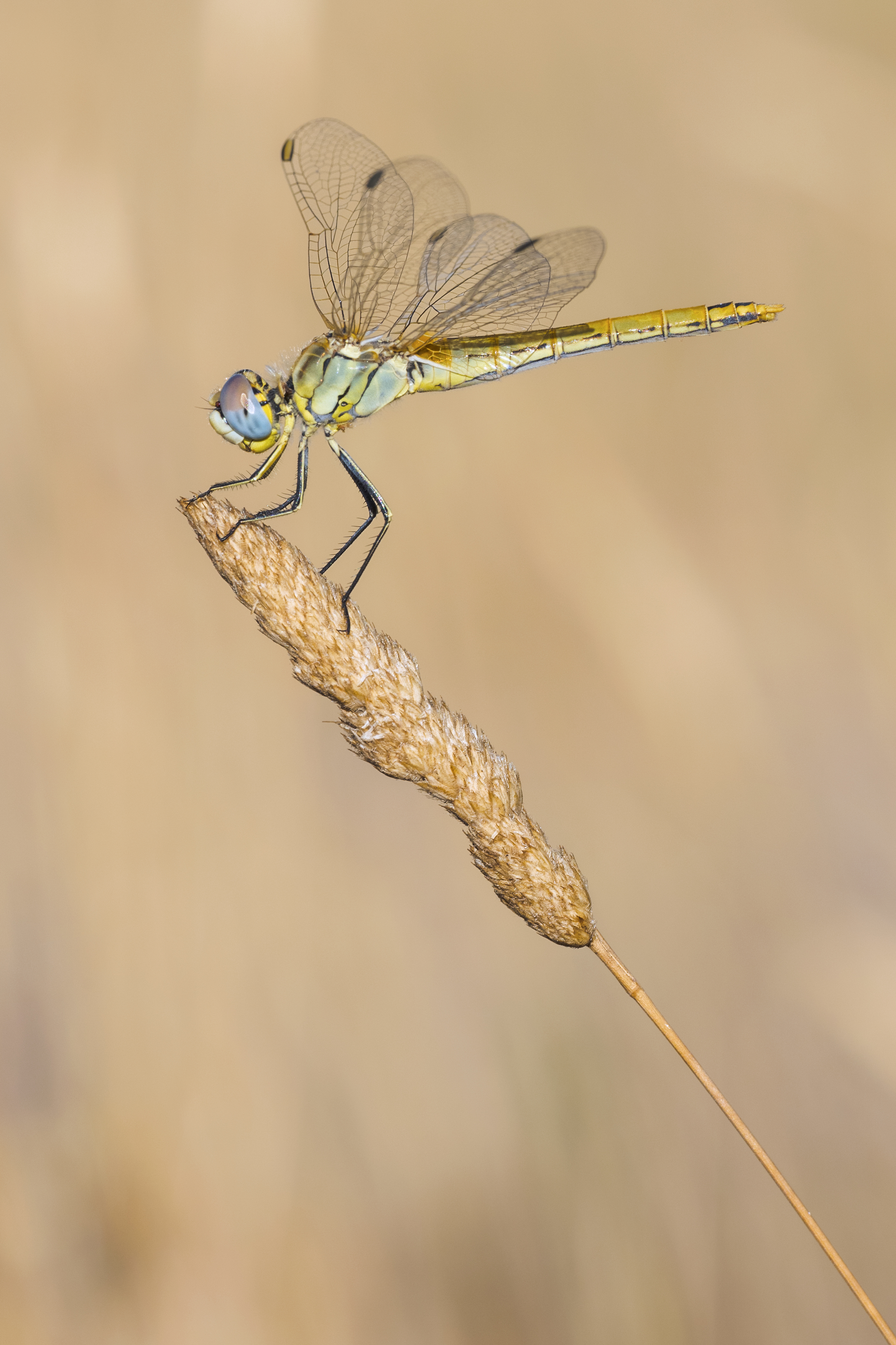 Sympetrum fonscolombii (Red-veined darter), female. Forest of Sète. Sète, Hérault, France